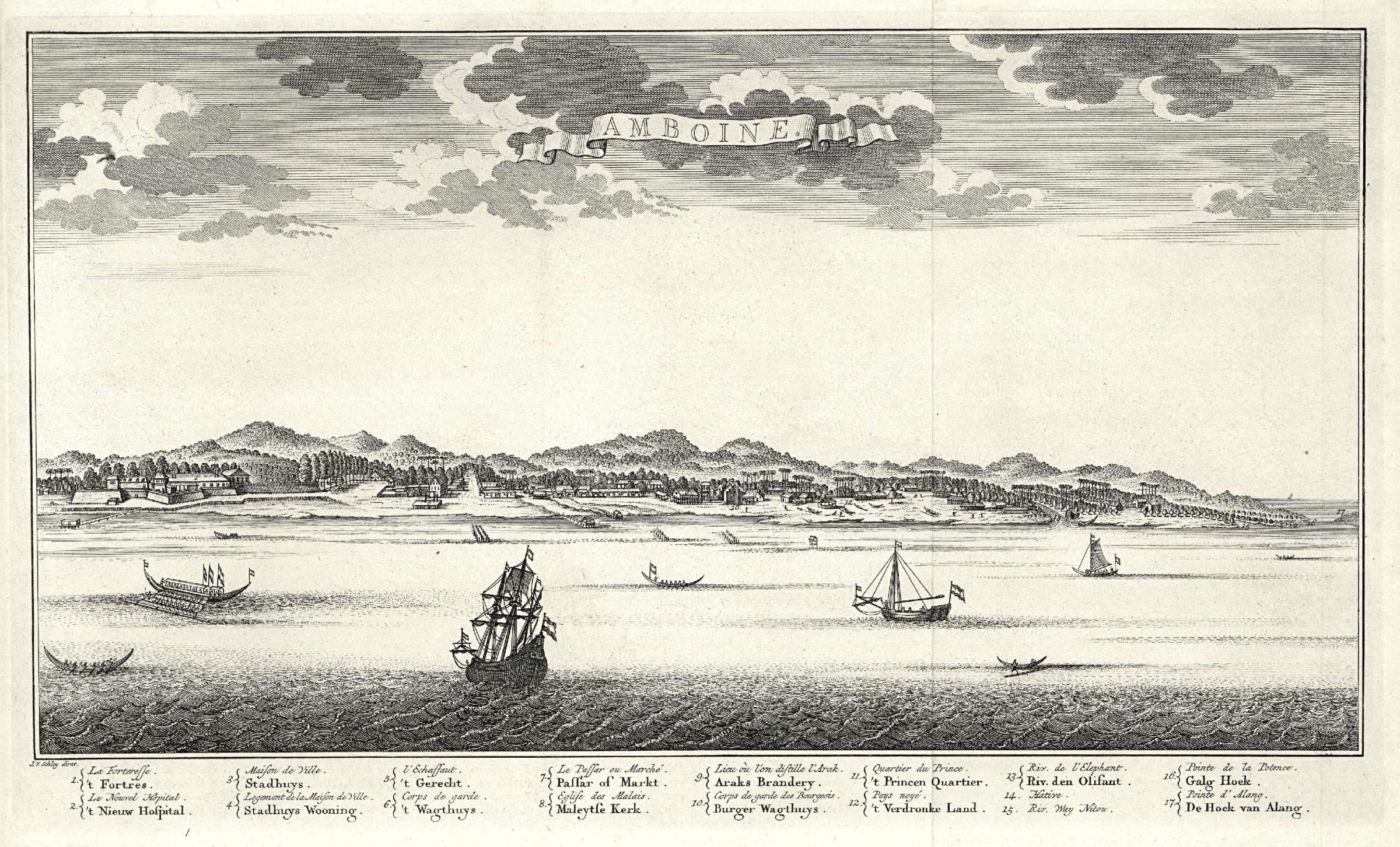 View of the city Amboina. Amboine. Key: 1-17.